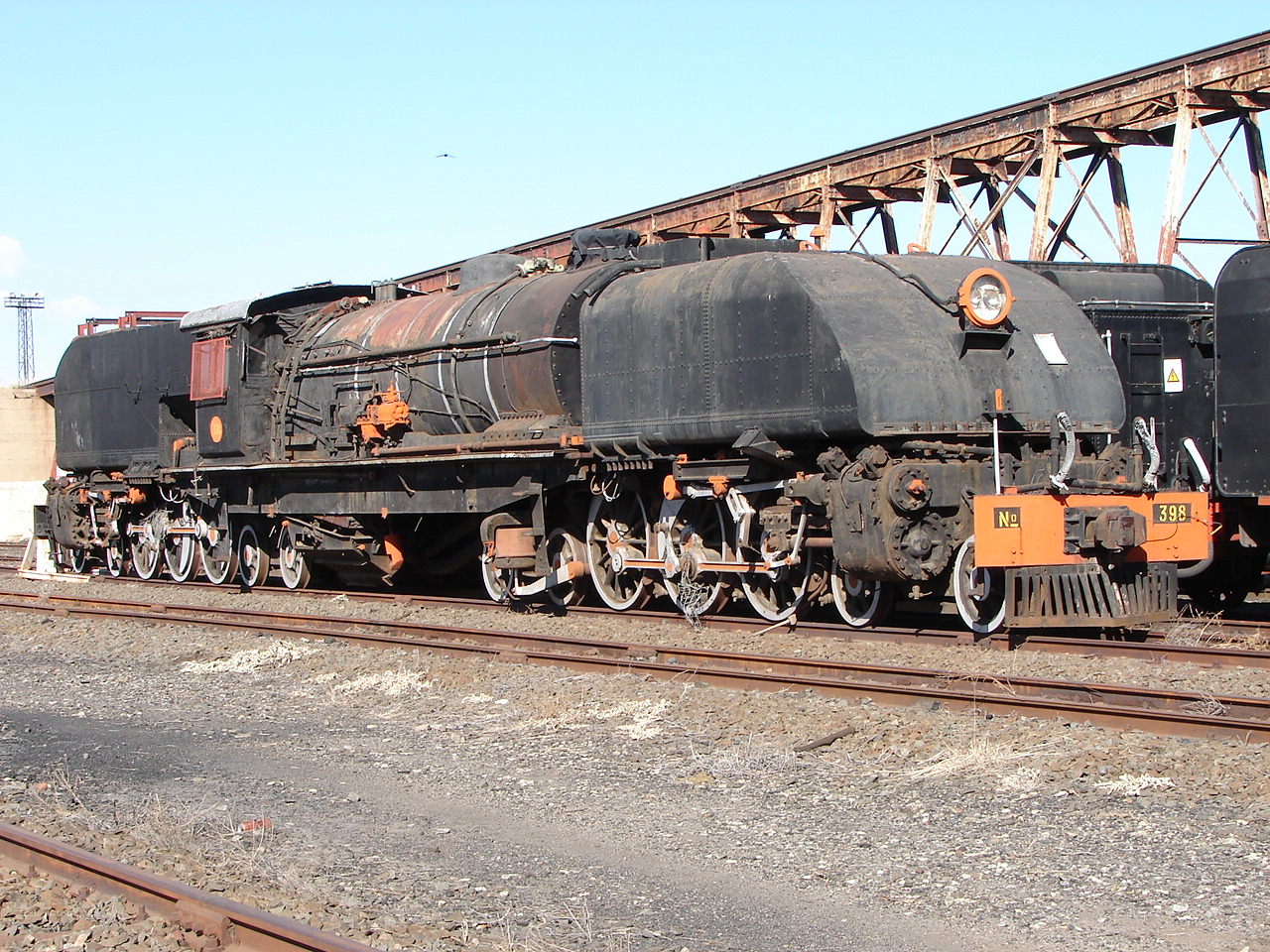 Rhodesia Railways Class 15A no. 398 (4-6-4+4-6-4) Location: Beaconsfield, Kimberley, South Africa